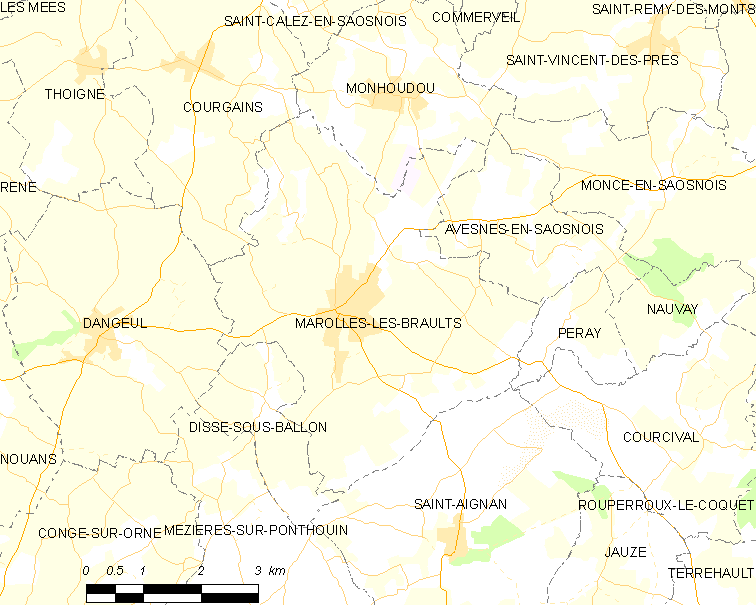 Map of French municipality